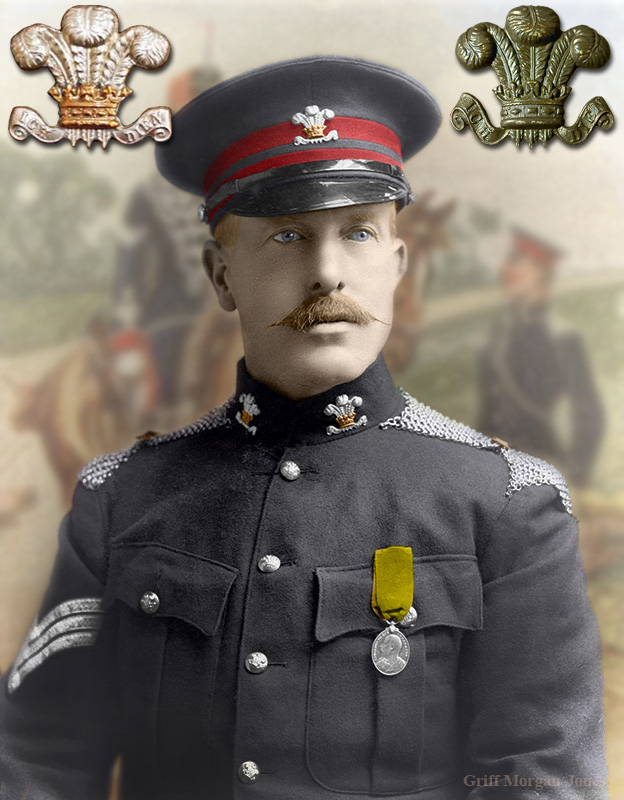 Denbighshire Hussars Sergeant pictured in 1907, also showing the dress (bi-metal) and field (bronze) cap badges.